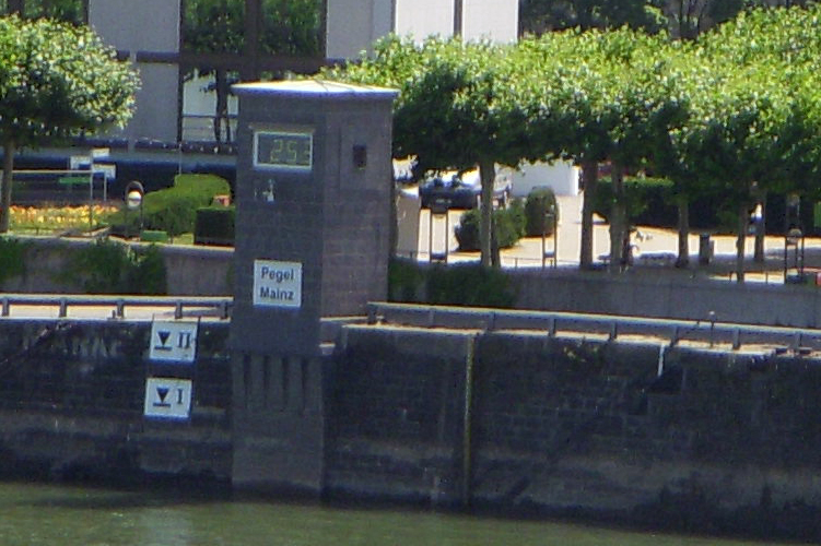 River Rhine stream gauge Mainz, digital display